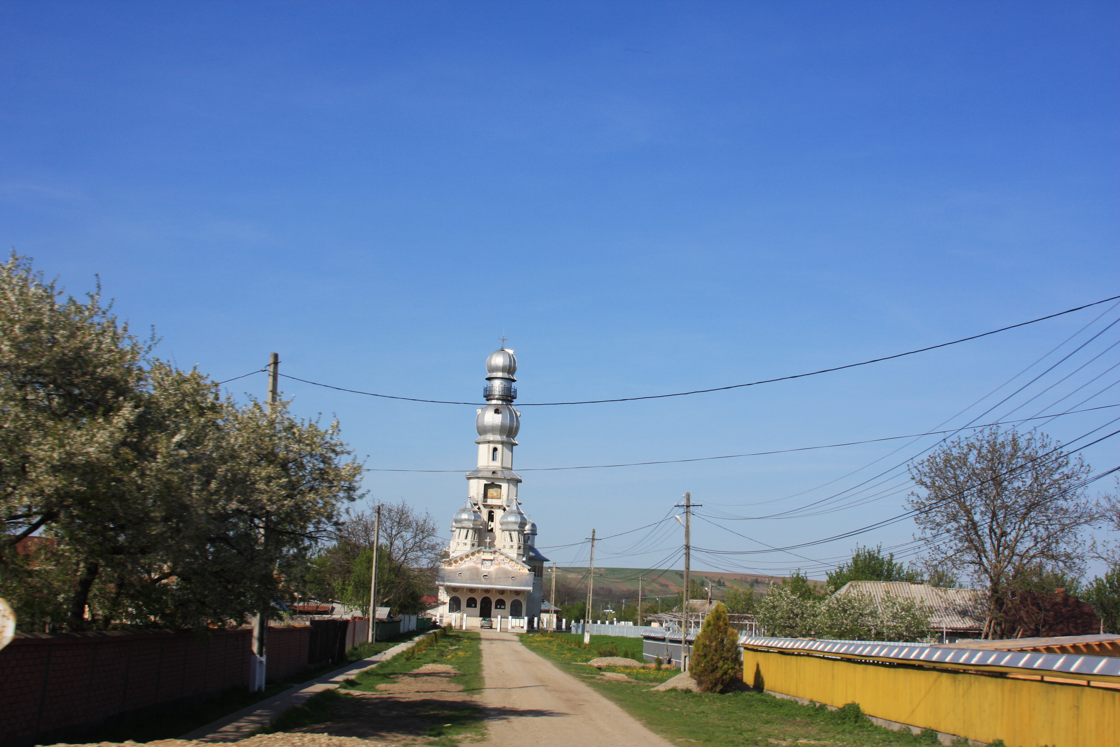 Podoleni Church